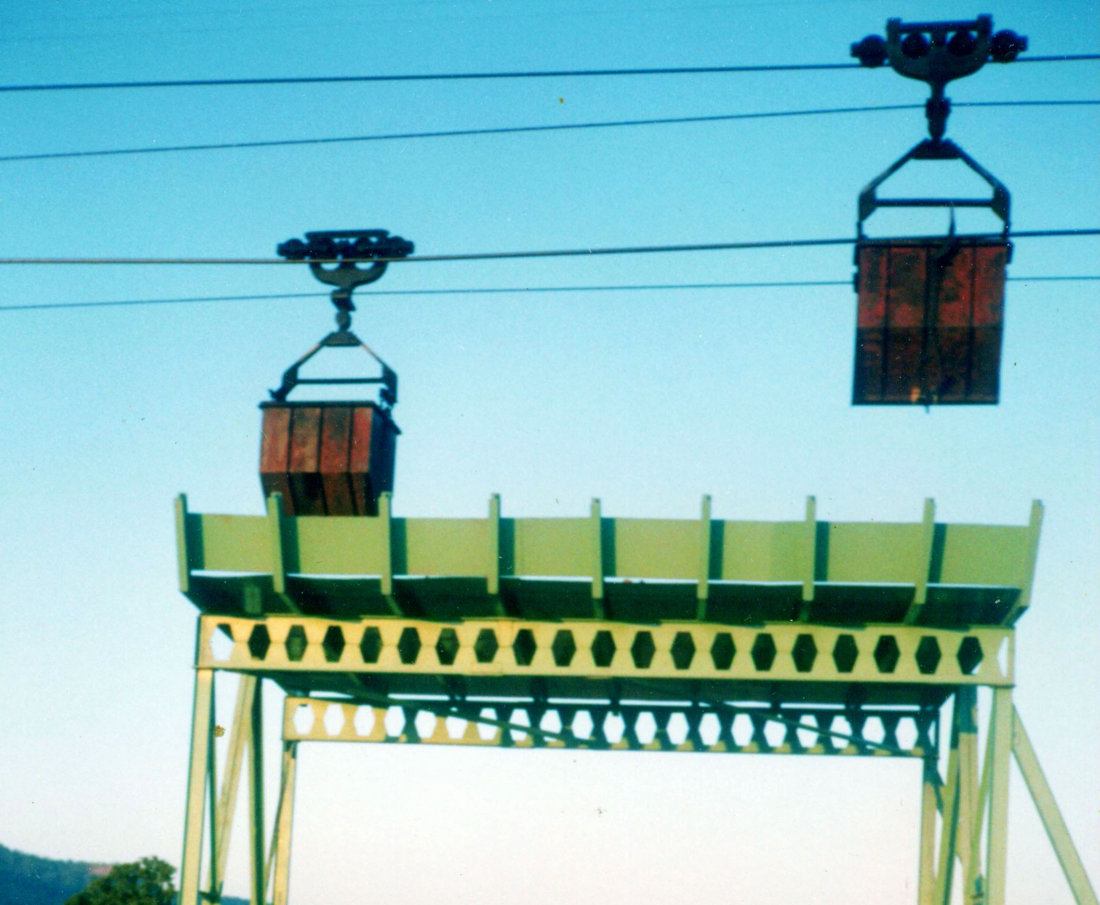 Coal Handling Ropeway (to heavy water plant) near Pamulapalli village, Khammam district